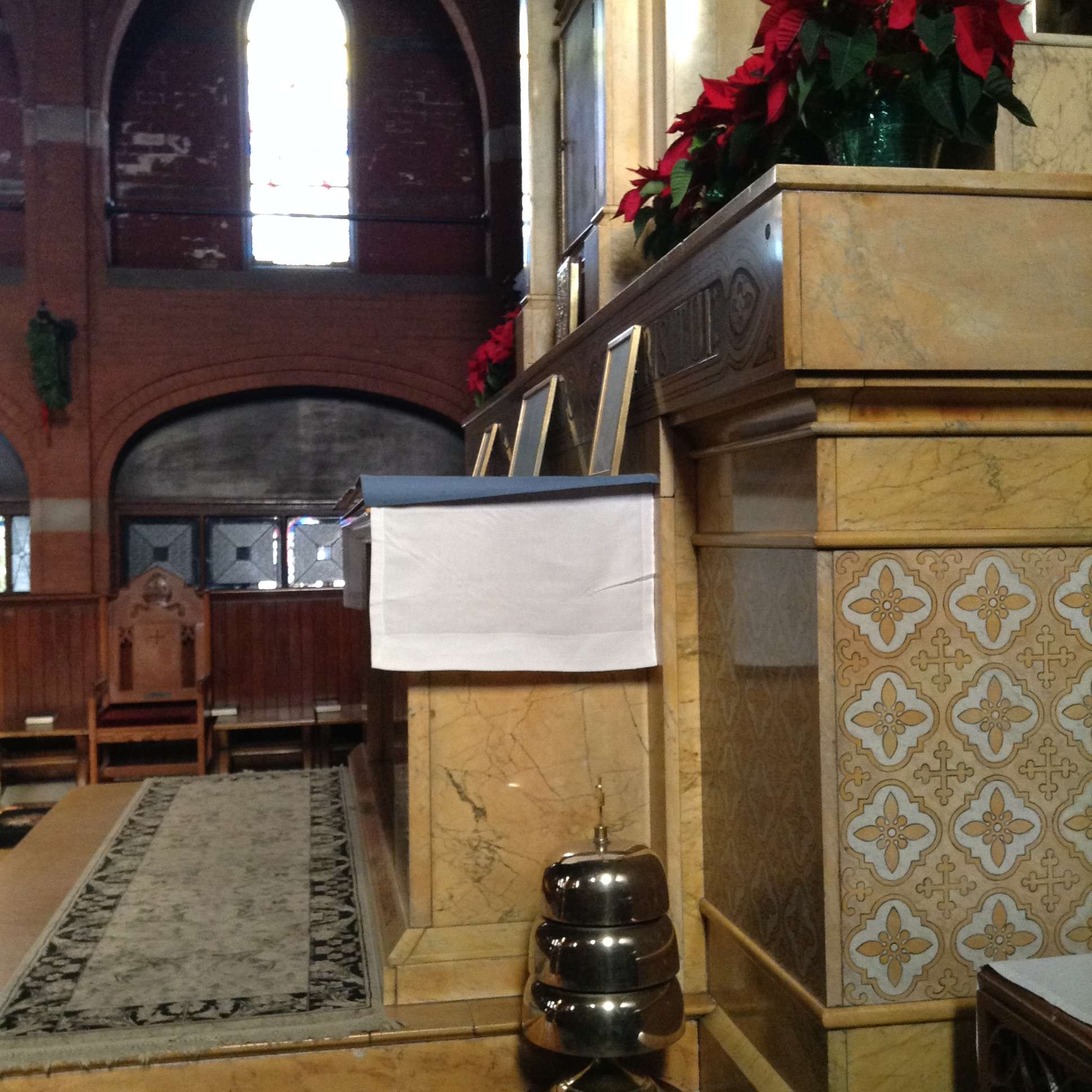 Anglo-Catholic church in Kansas City Missouri. This Represents an ad orientem altar.